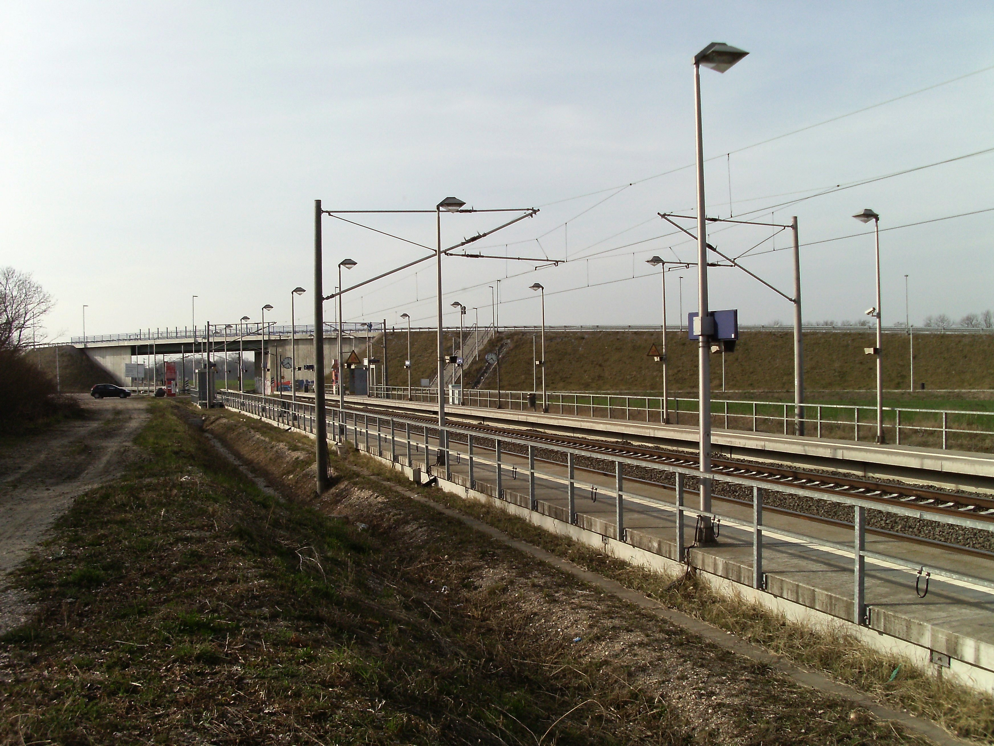 Grosskugel station at the Halle-Leipzig railway line (Kabelsketal, district of Saalekreis, Saxony-Anhalt)